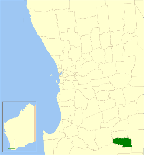 Description=Location of the Local Government Area in Western Australia